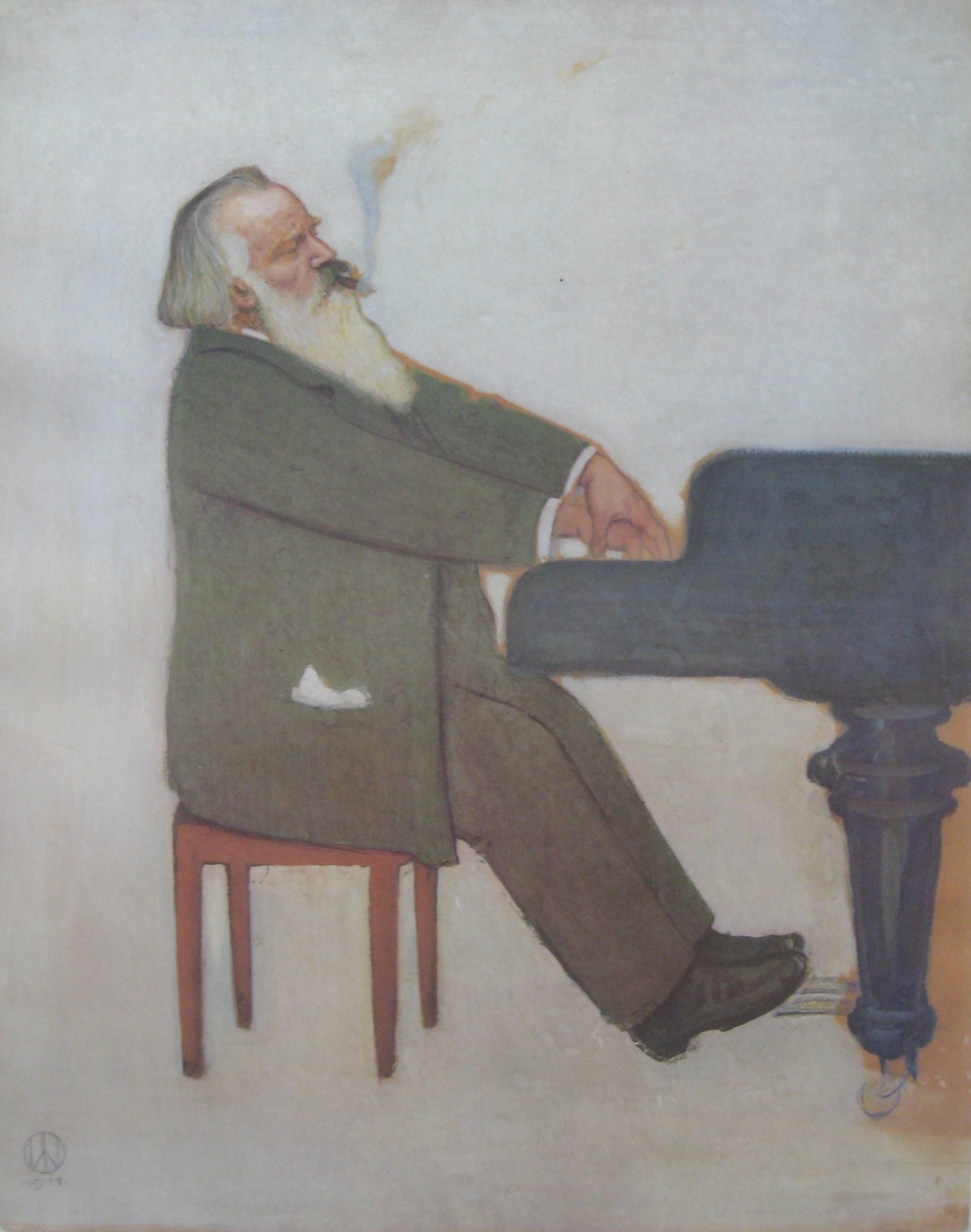 Willy von Beckerath - "Brahms am Flügel"